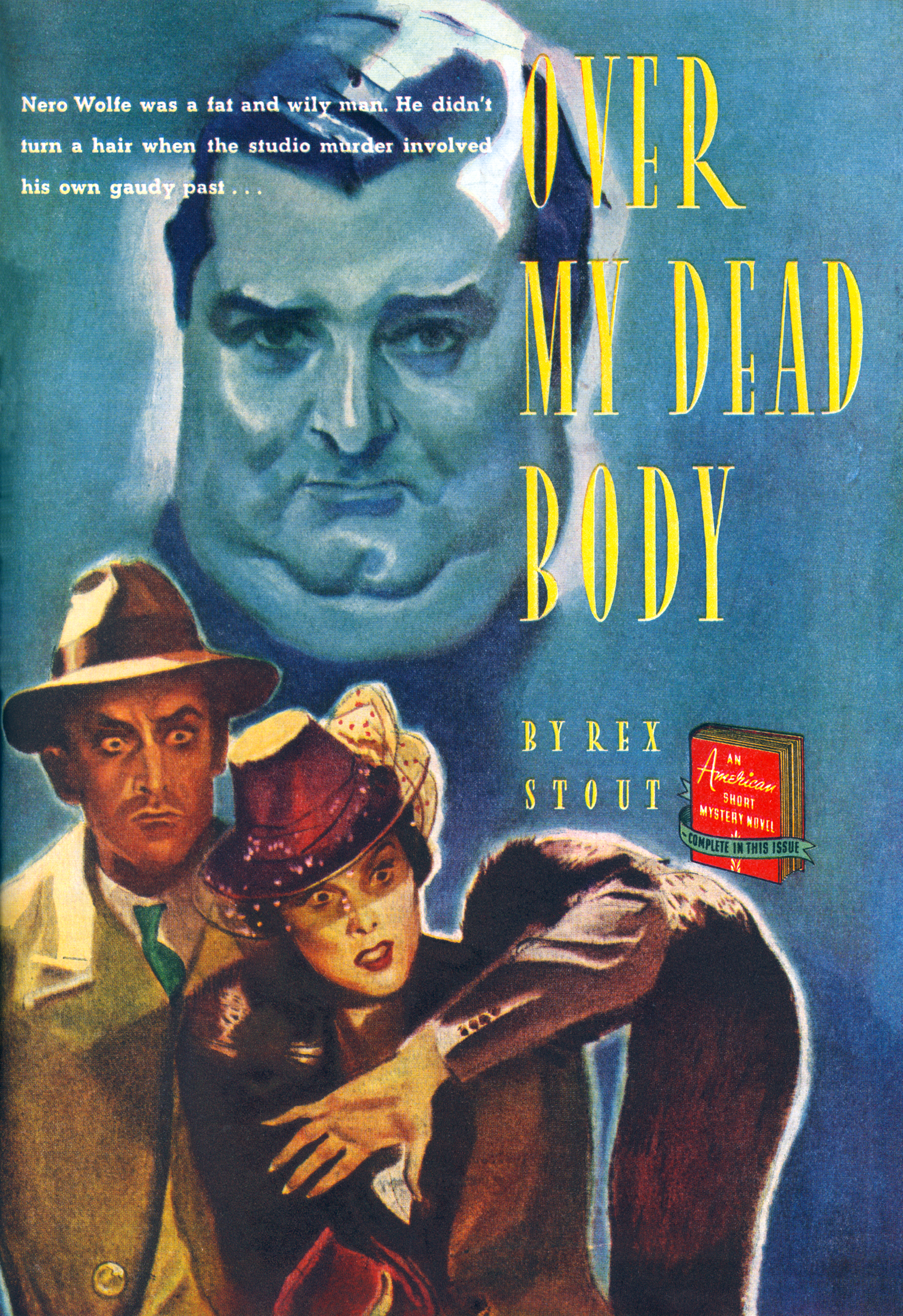 Lead illustration from The American Magazine abridged printing of Over My Dead Body (1940), a Nero Wolfe novel by Rex Stout